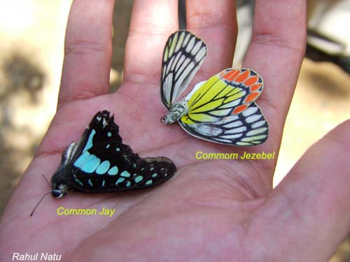 This is a photograph of dead butterflies found by Rahul Natu. The butterflies are :- Delias eucharis, Common Jezebel. Graphium doson, Common Jay.